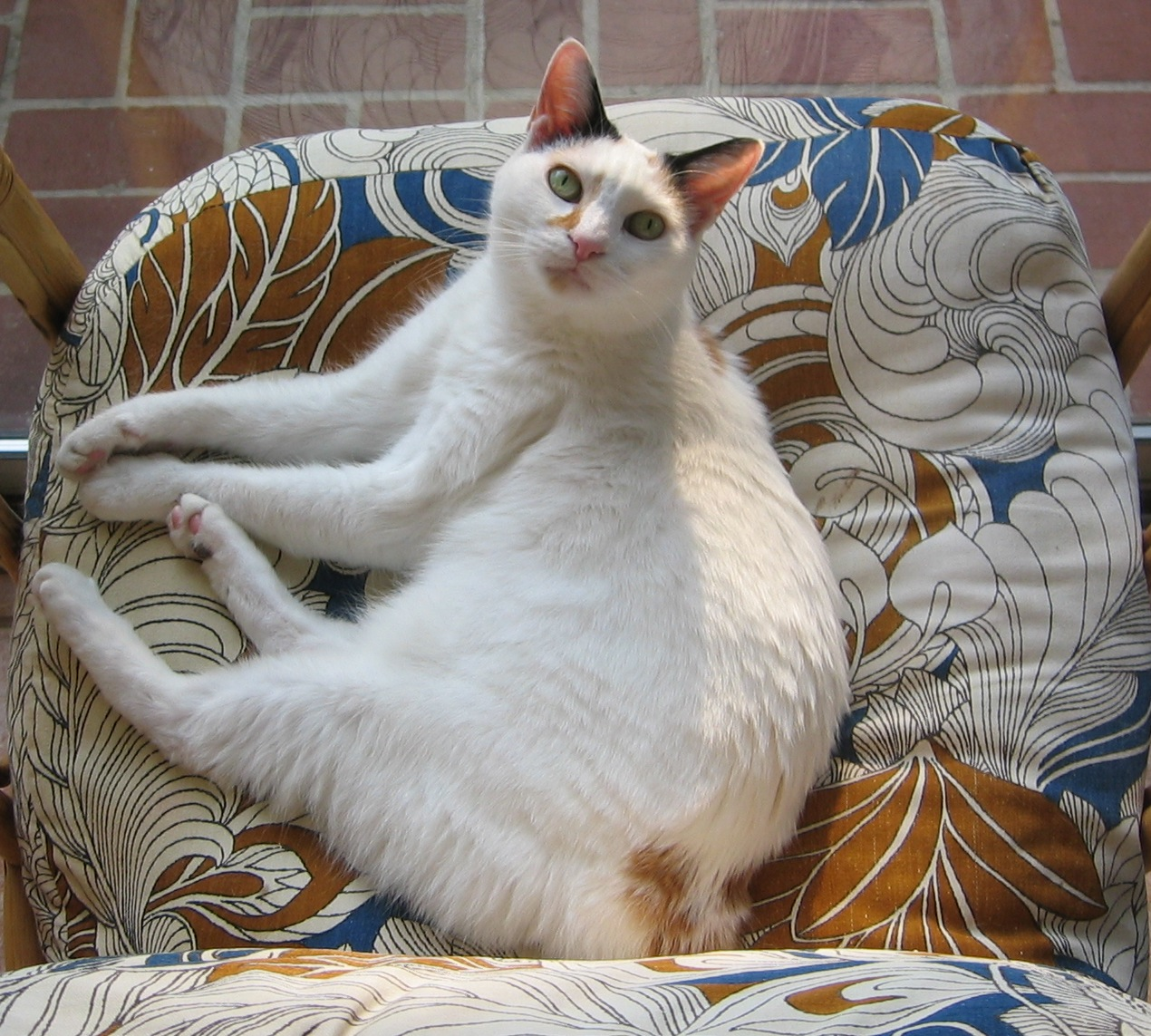 A show-quality female Japanese bobtail looks attentively at the camera, displaying the triangular face that is a characteristic of the breed.